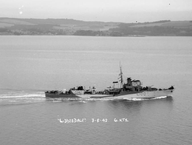 Aerial photograph of British Hunt class destroyer HMS Liddesdale.